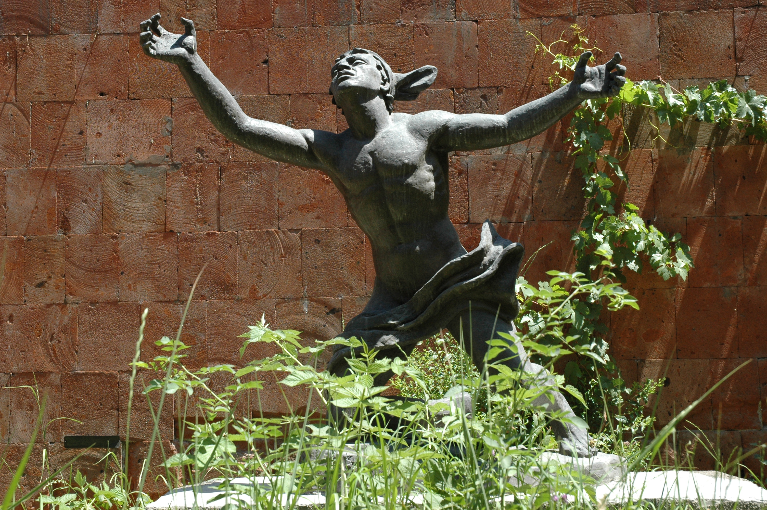 Հիրոսիմա 1